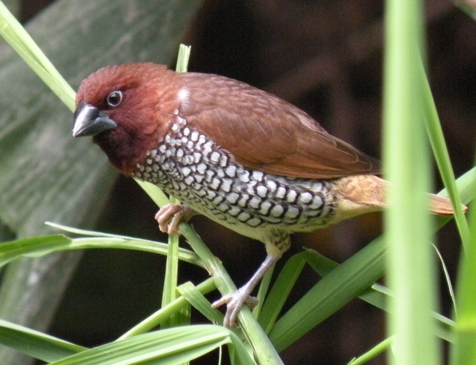 A Scaly-breasted Munia (Lonchura punctulata) in Avifauna, Alphen aan de Rijn, The Netherlands